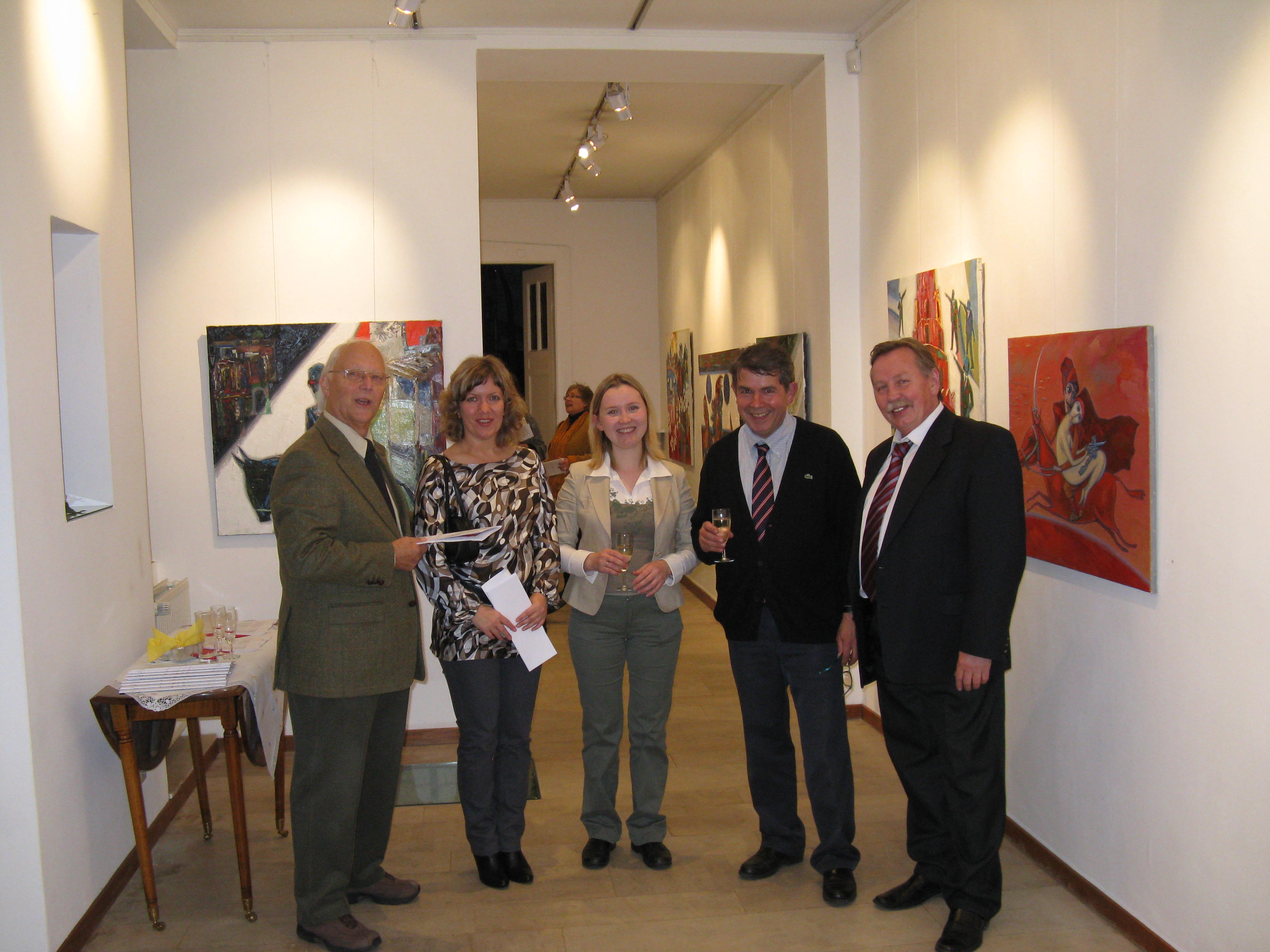 Photo from exhibition of Alexey Karaev in Modert's Gallery in Luxembourg city.